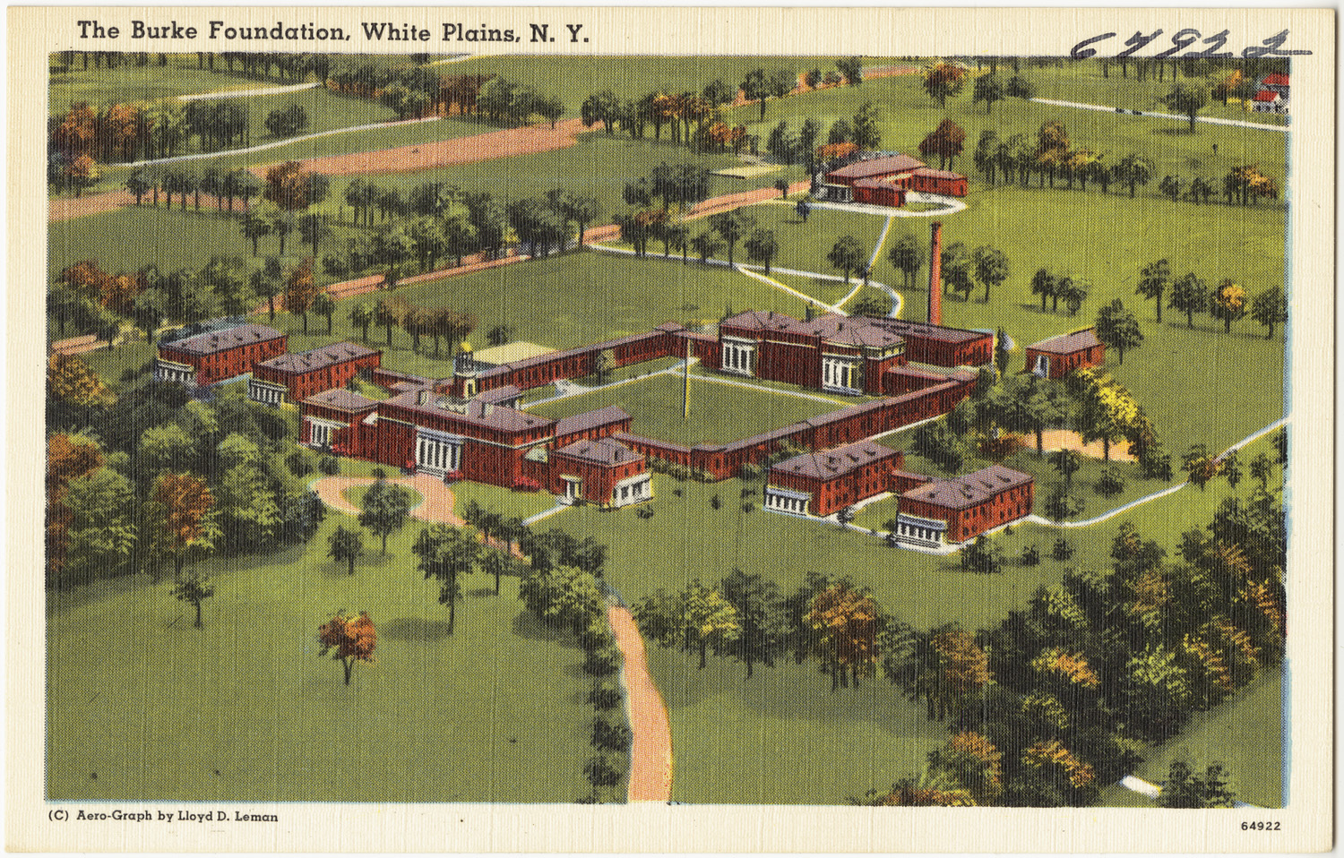 1940s-era postcard of the Burke Rehabilitation Hospital in White Plains, NY.